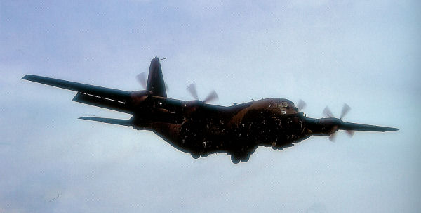 MC-130E of the 7th Special Operations Squadron, Rhein Main Air Base Germany.